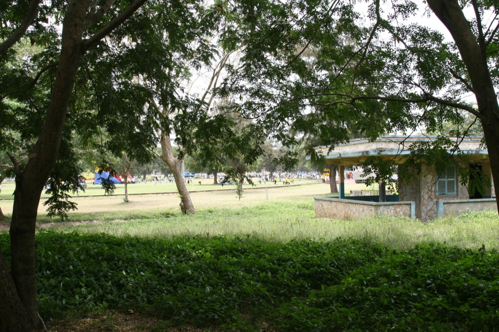 Efua Sutherland Children Park. Located near the centre of Accra, this is the Accra equivalent of Central Park, only very much smaller.